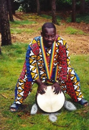 Omar Seck - Master drummer from Senegal